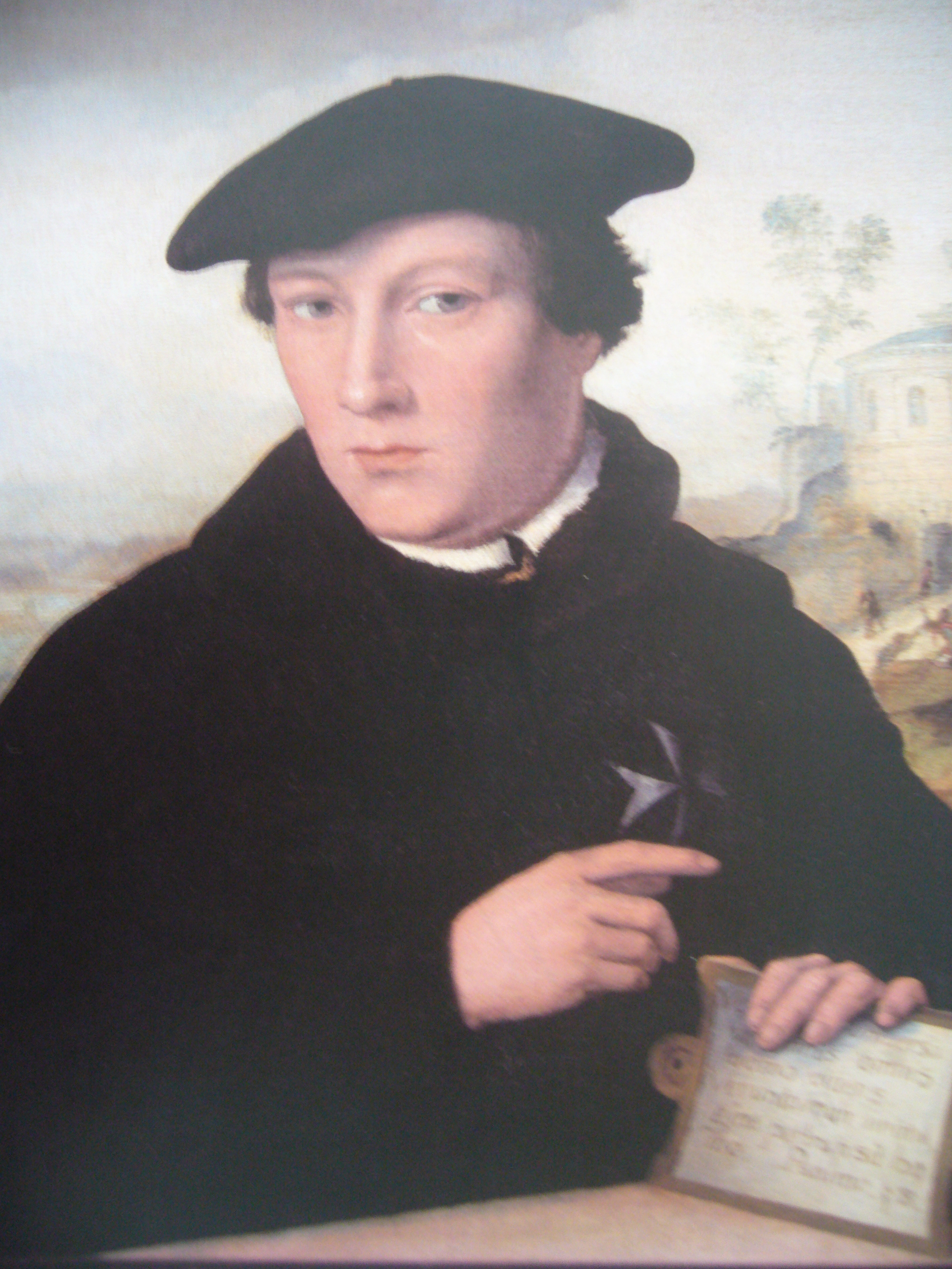 Hendrick Barck (1561-1602)